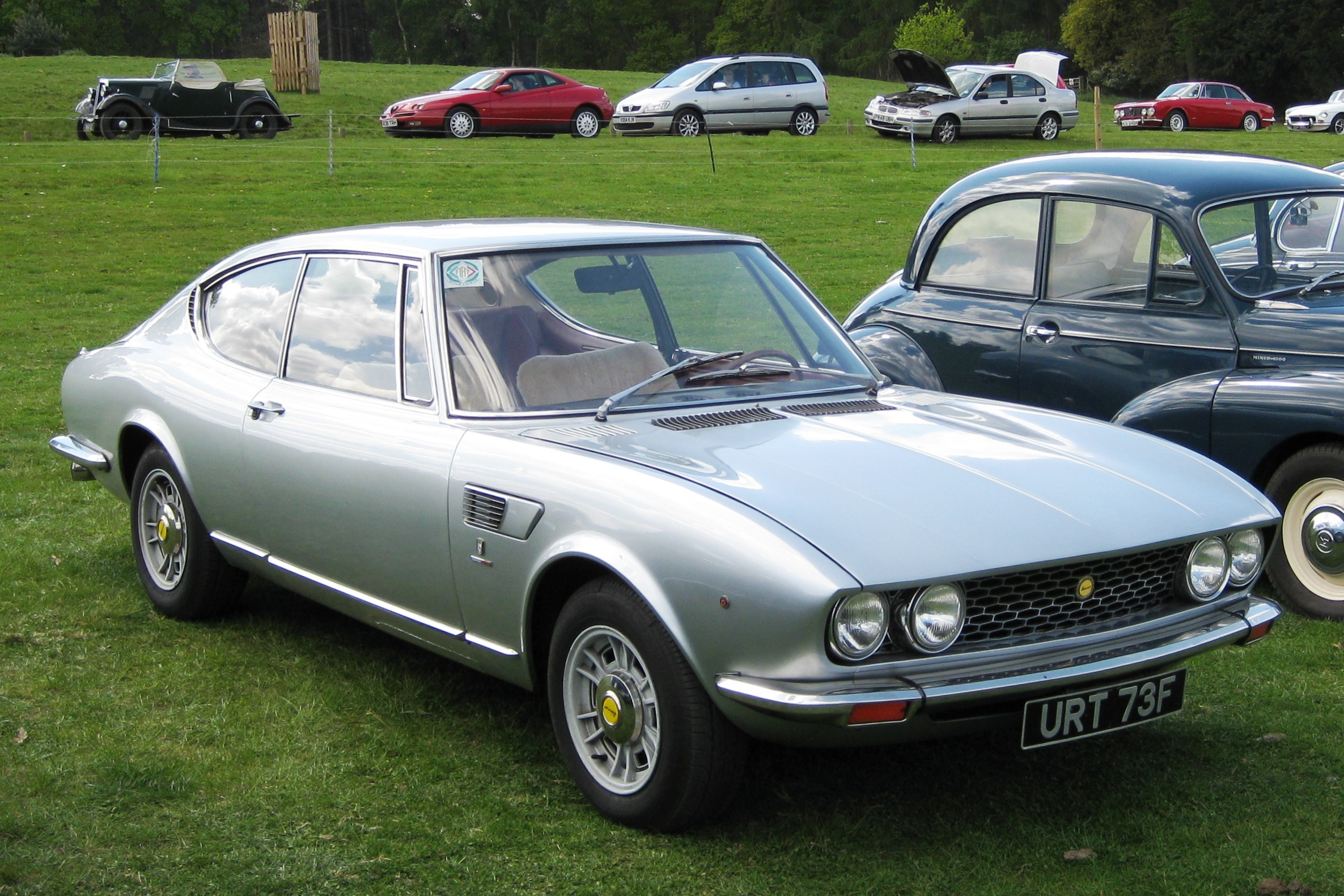 Fiat Dino near Biggleswade